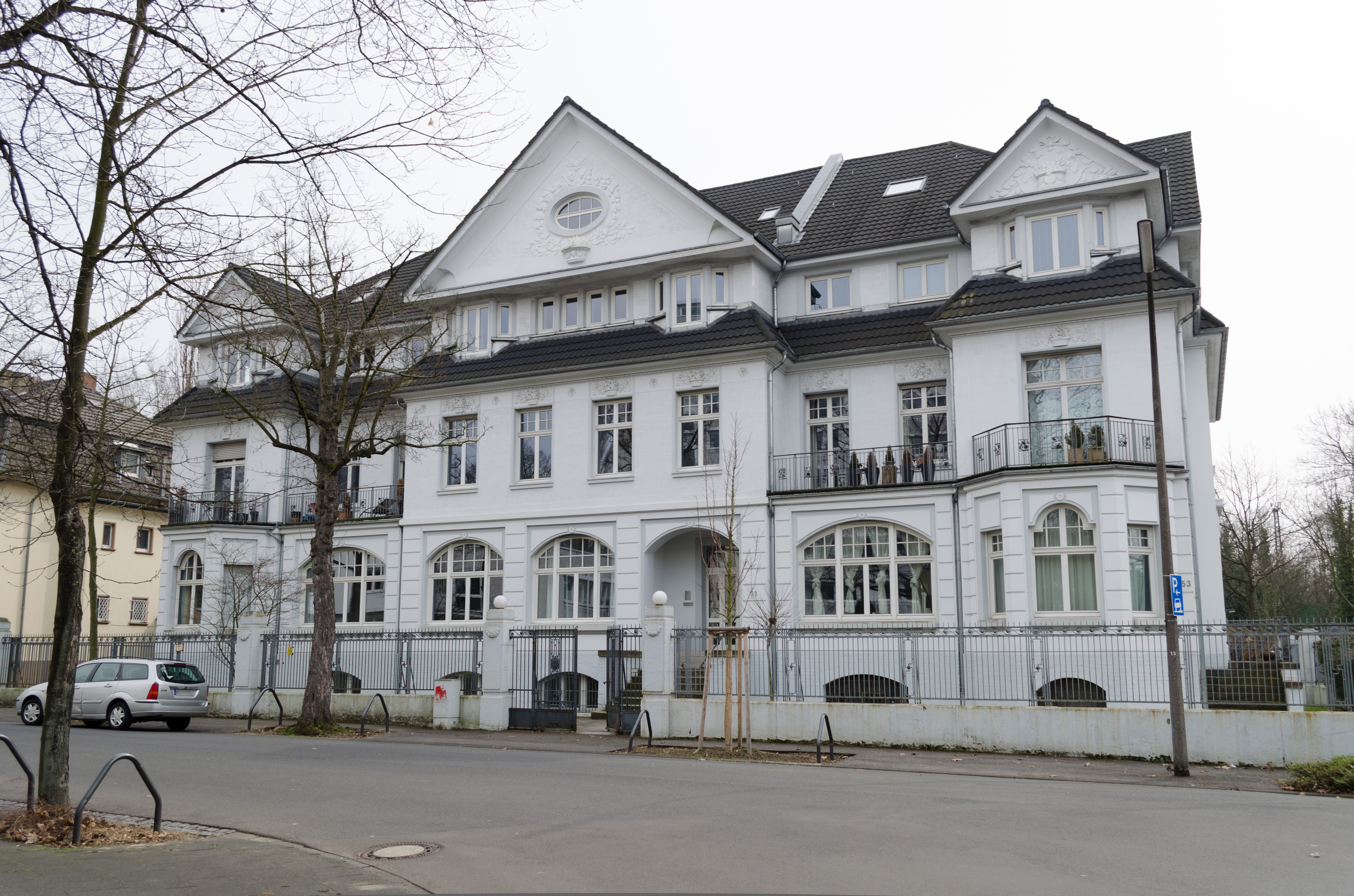 Cultural heritage monument in Bad Godesberg